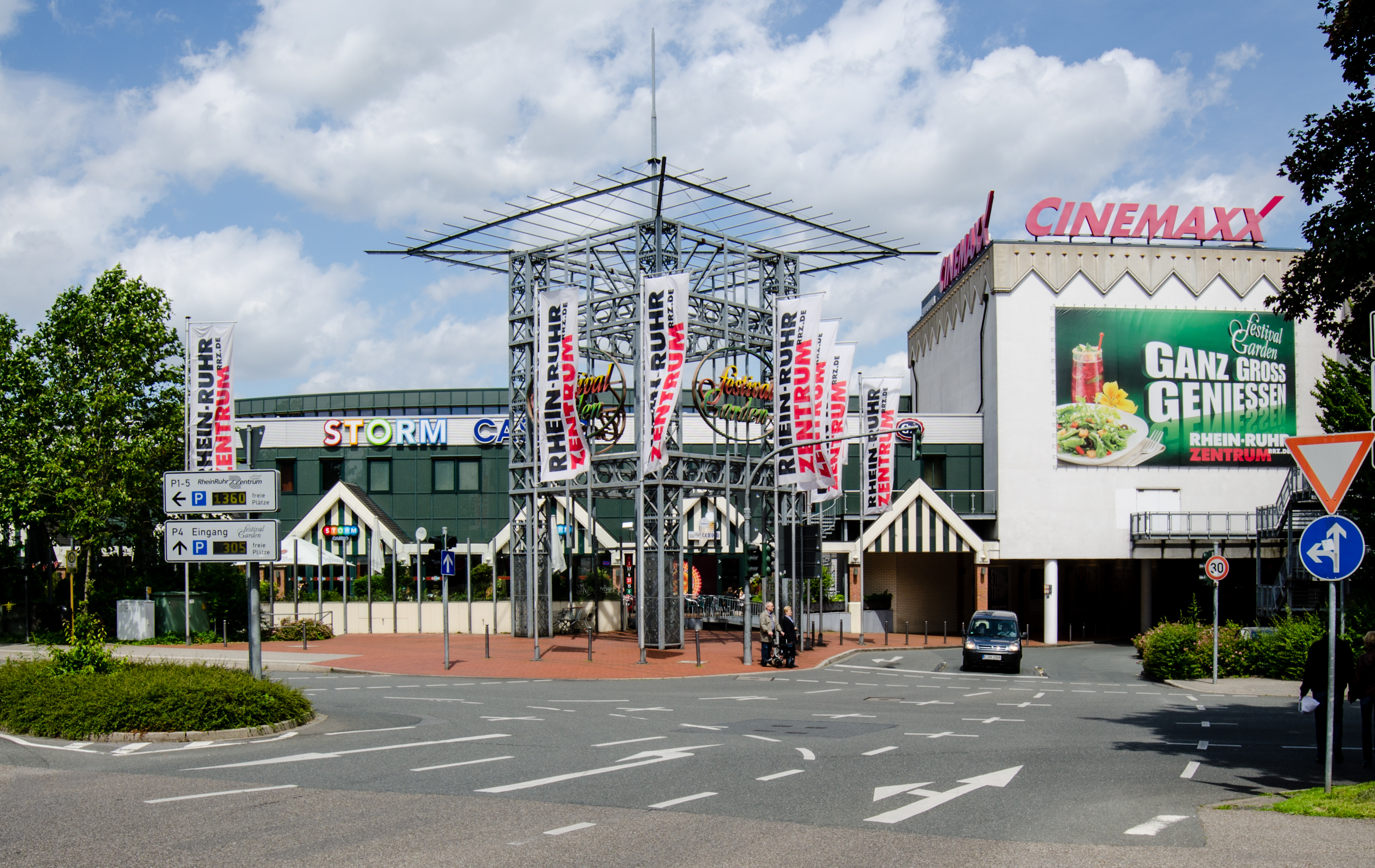 RheinRuhrZentrum view on entry Festival Garden